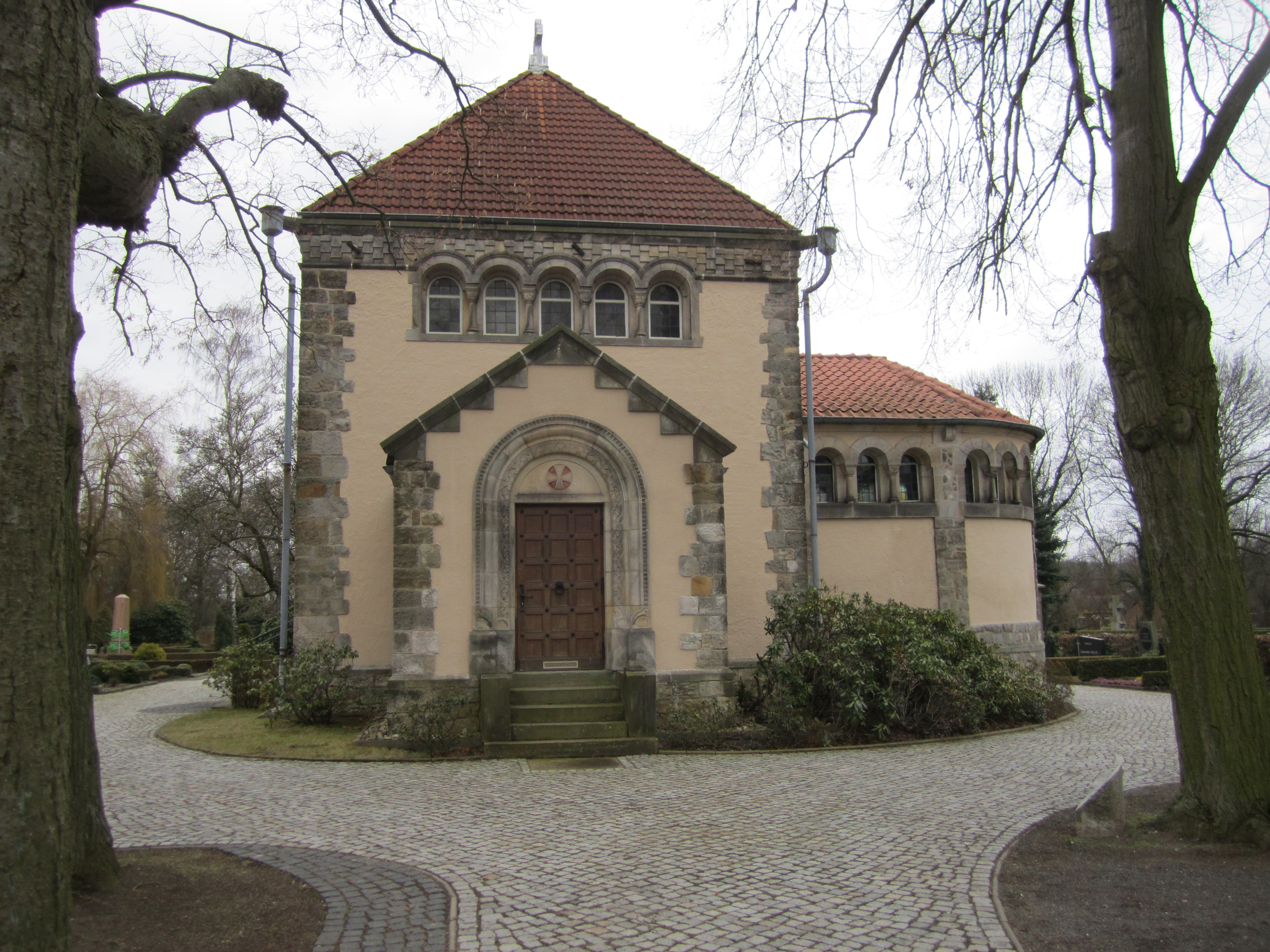 Chapel of the Michaelis cemetery in Hanover-Ricklingen.